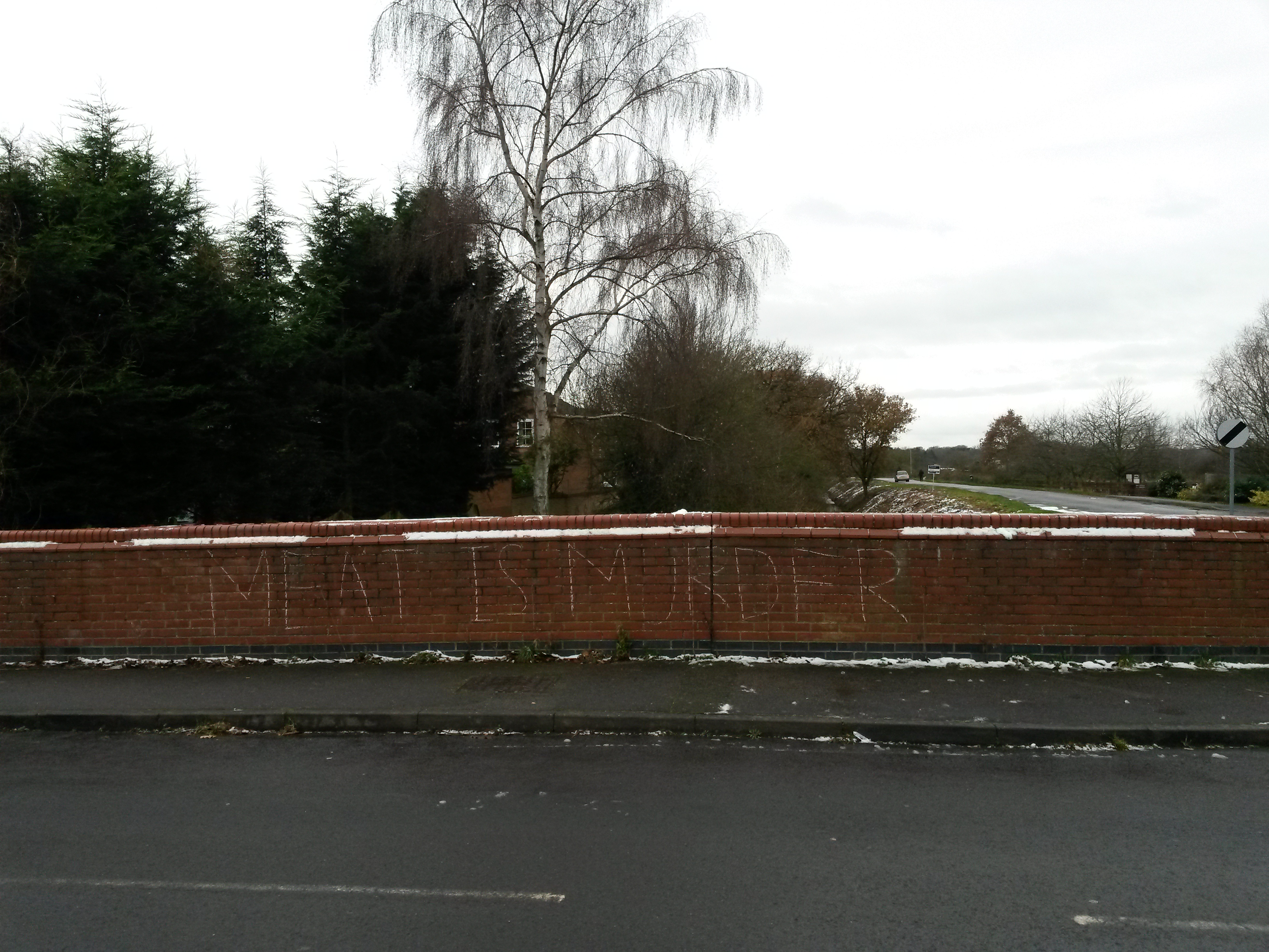 Photo of graffiti sprayed on a local bridge following a demonstration in Skellingthorpe.